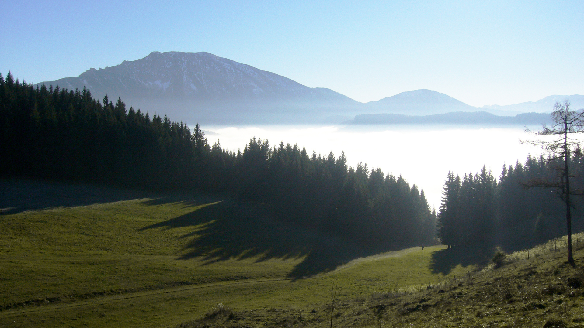 around scheibbs, austria, dec06